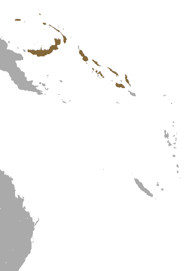 Admiralty Flying Fox (Pteropus admiralitatum) range